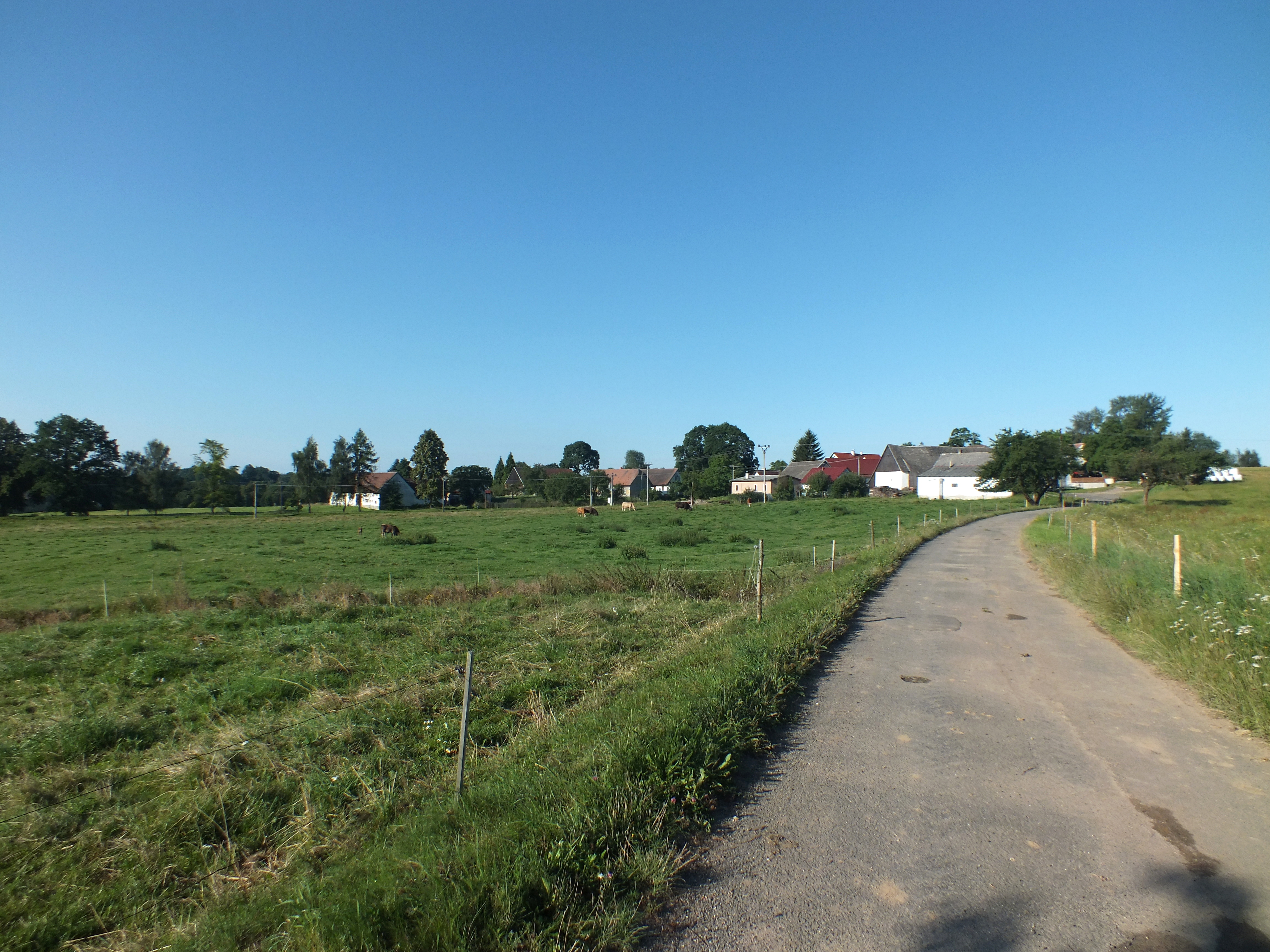 The general view of Křivošín from the north-east